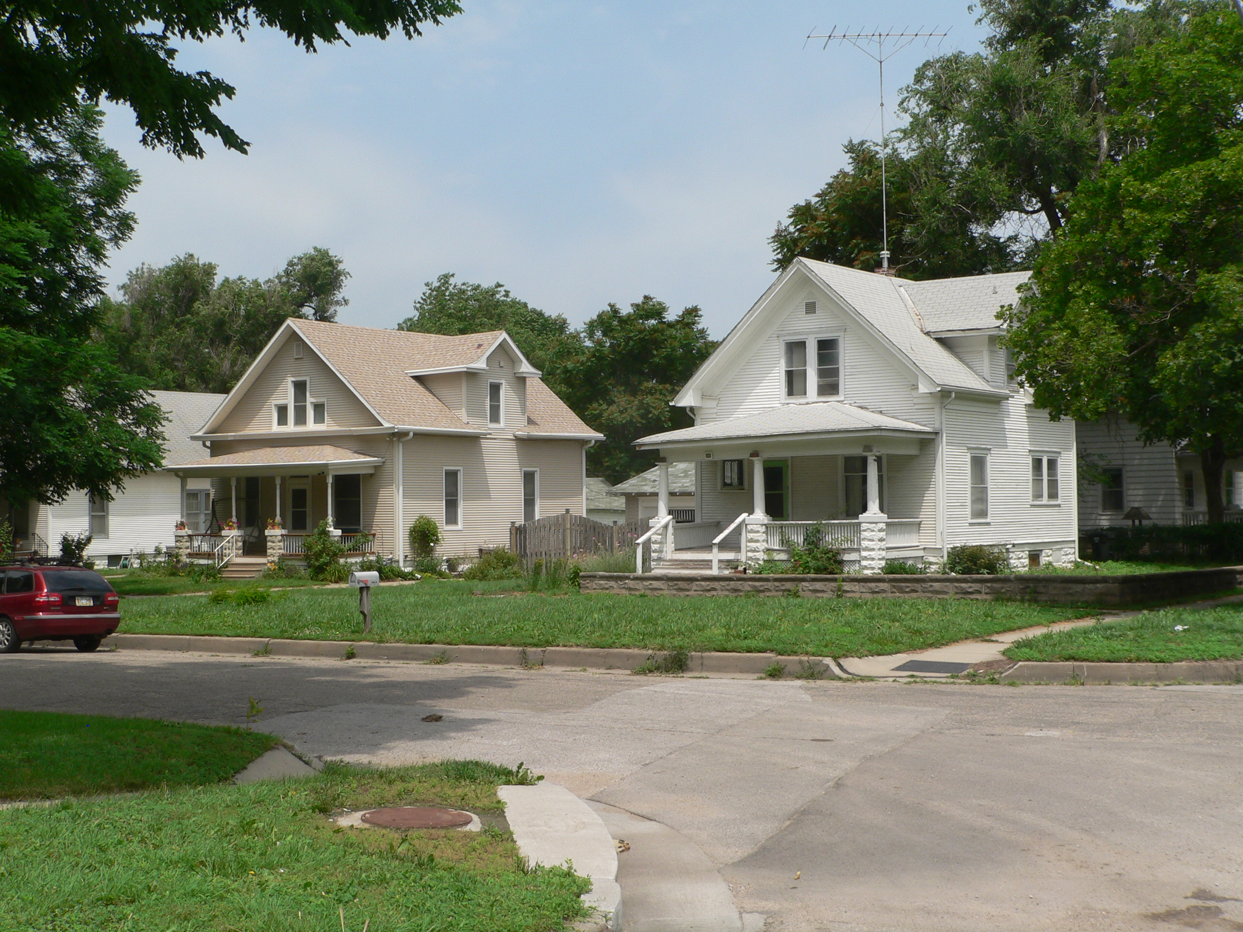 Houses at 540 (left) and 546 (right) B Street in Lincoln, Nebraska. The houses are part of the South Bottoms Historic District, listed in the National Register of Historic Places.